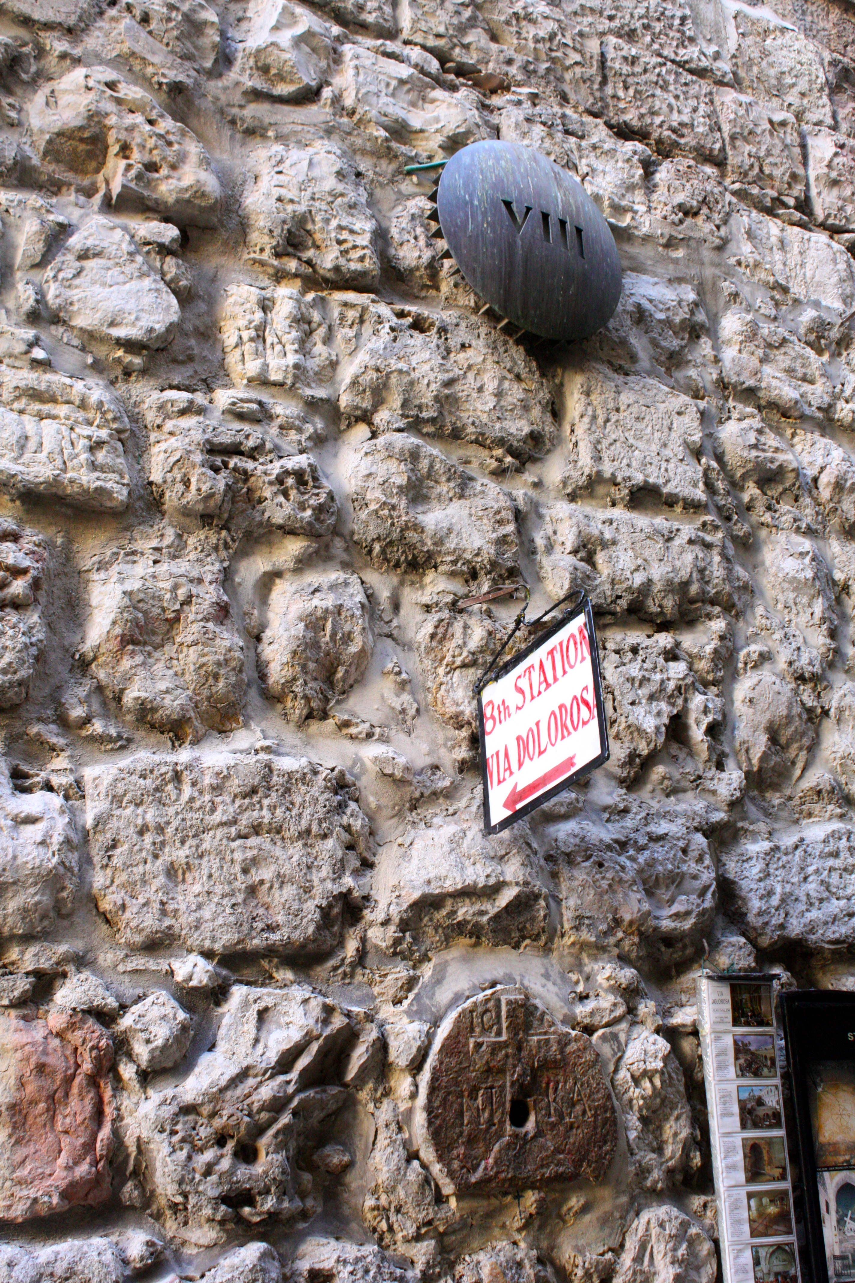 Jerusalem - The Old City - 118